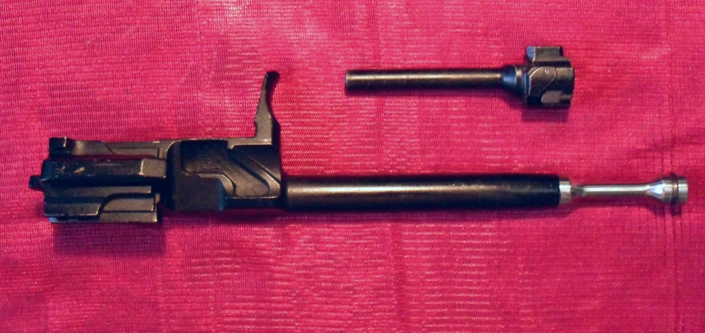 AKS74U bolt & bolt carrier